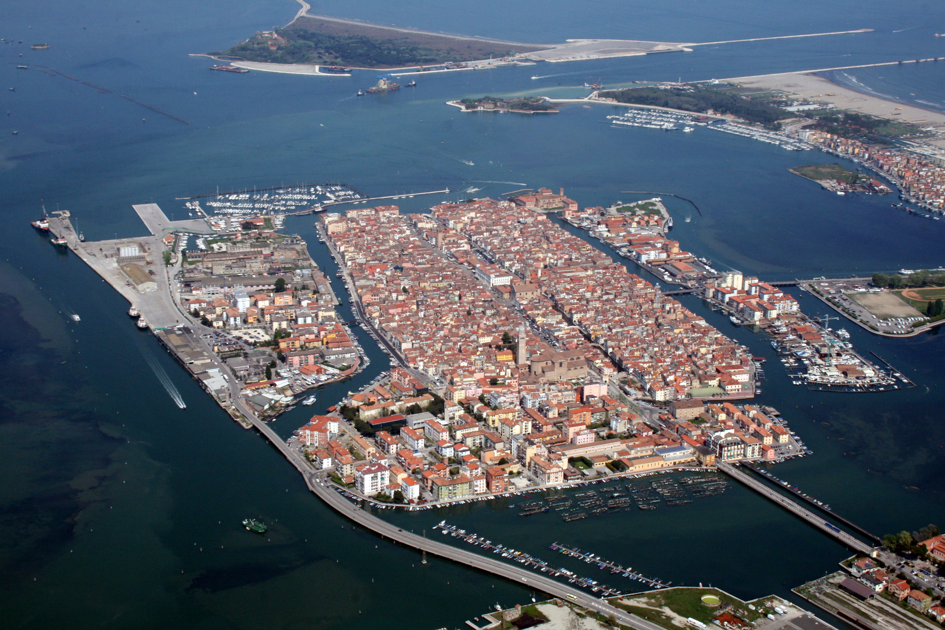 City of Chioggia